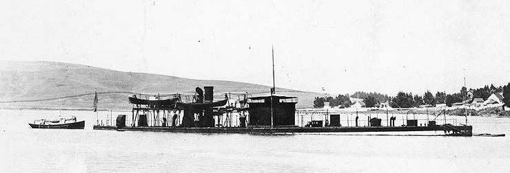 A cropped photograph of the USS Camanche off Mare Island during the Spanish-American War. Original found at